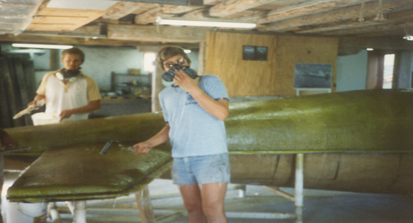 Klapmeier brothers in the basement of their Wisconsin barn painting VK-30 fuselage. (Alan in front, Dale in the background.)